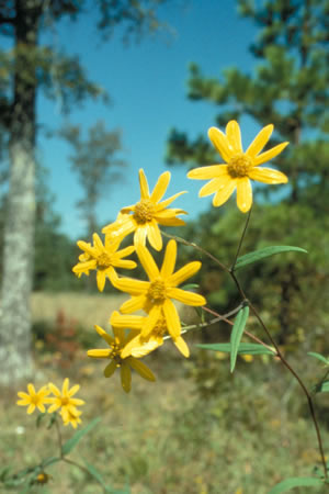 Helianthus schweinitzii